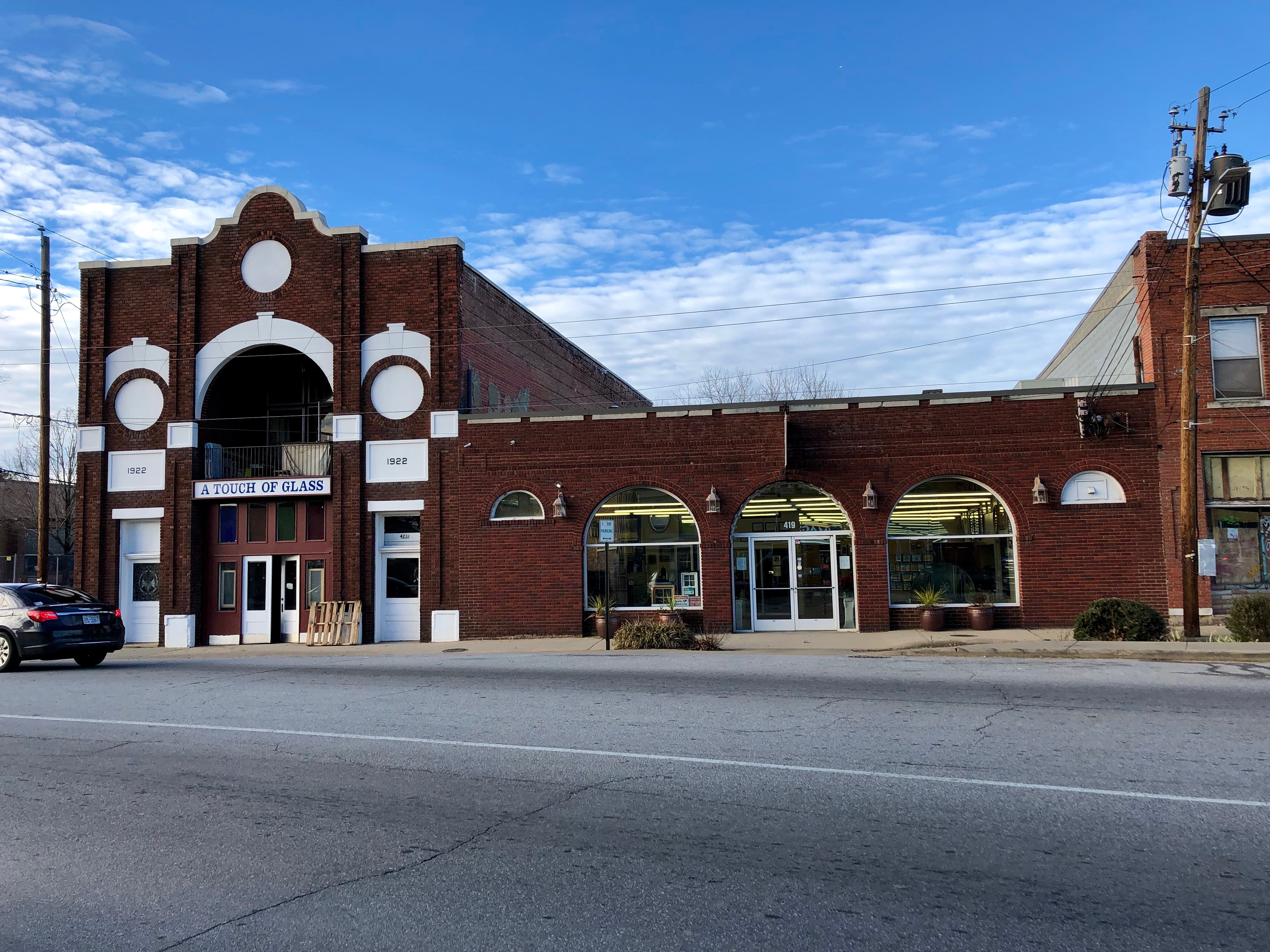 This is the former West Asheville Fire Station (1922) and an adjoining early 20th Century commercial building, located on Haywood Road at Westwood Place in West Asheville, a neighborhood of Asheville, North Carolina. They are contributing structures in the West Asheville–Aycock School Historic District, listed on the National Register of Historic Places in 2006.